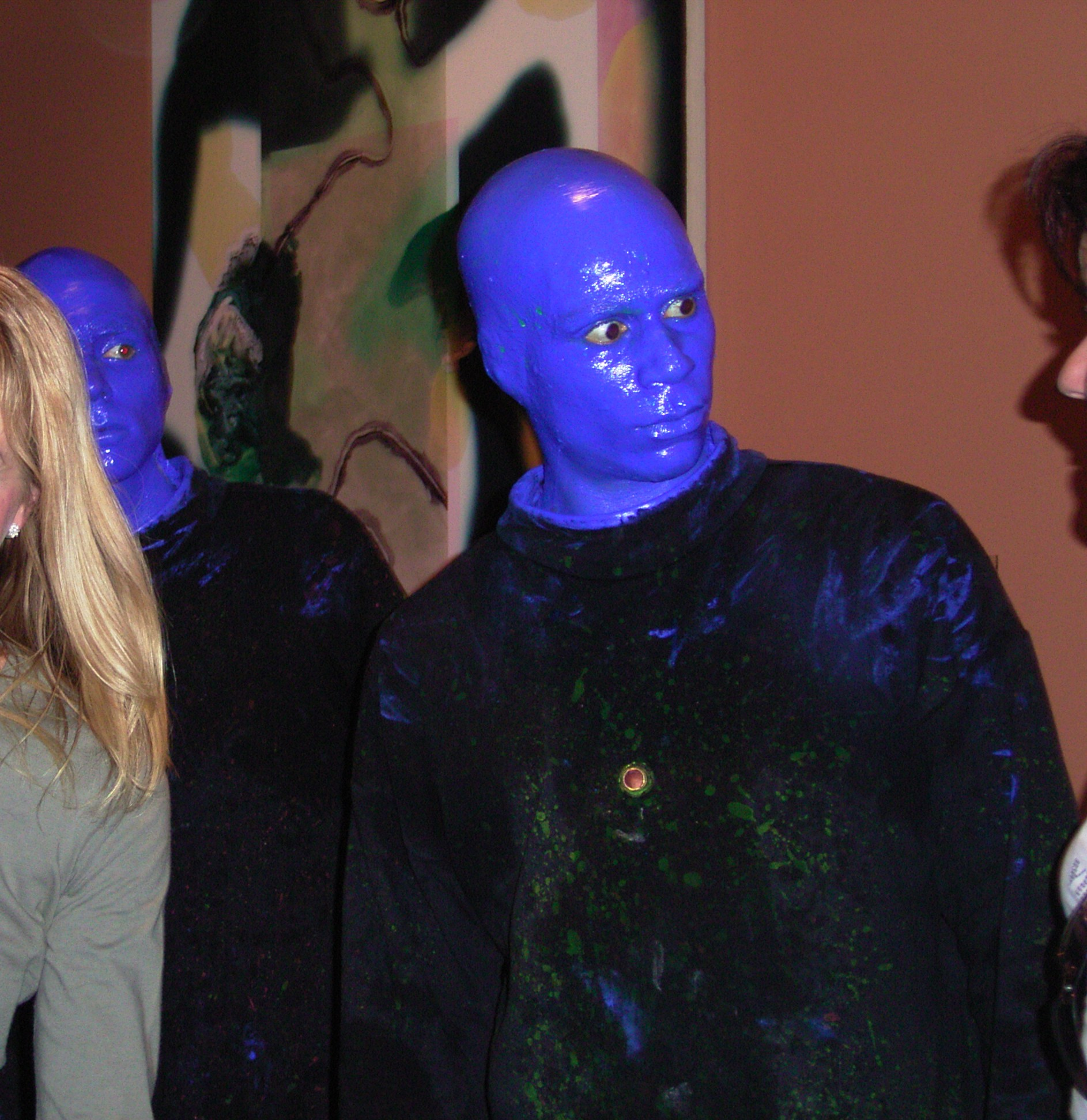 One of the Blue Man Group